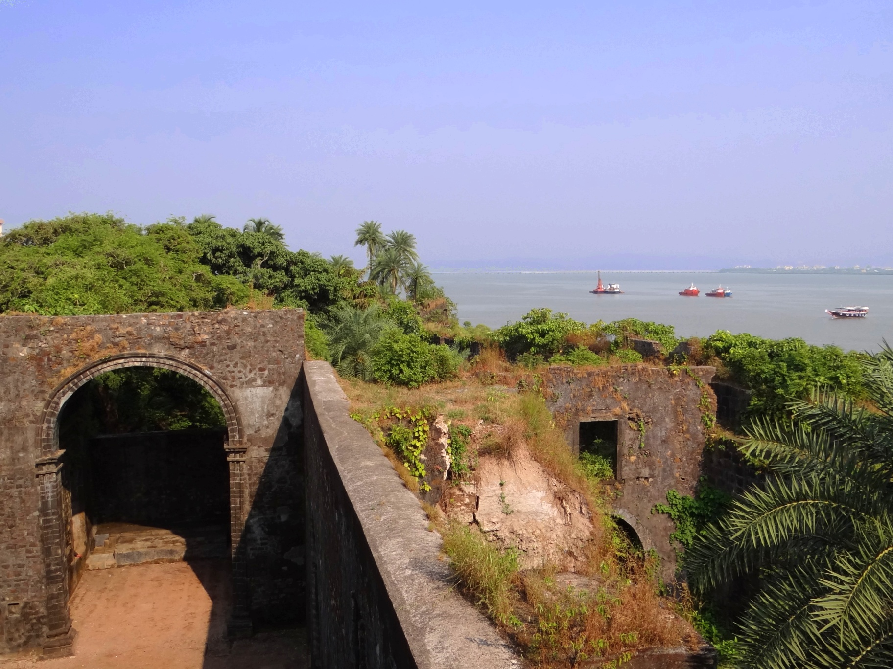 View from the Watch tower